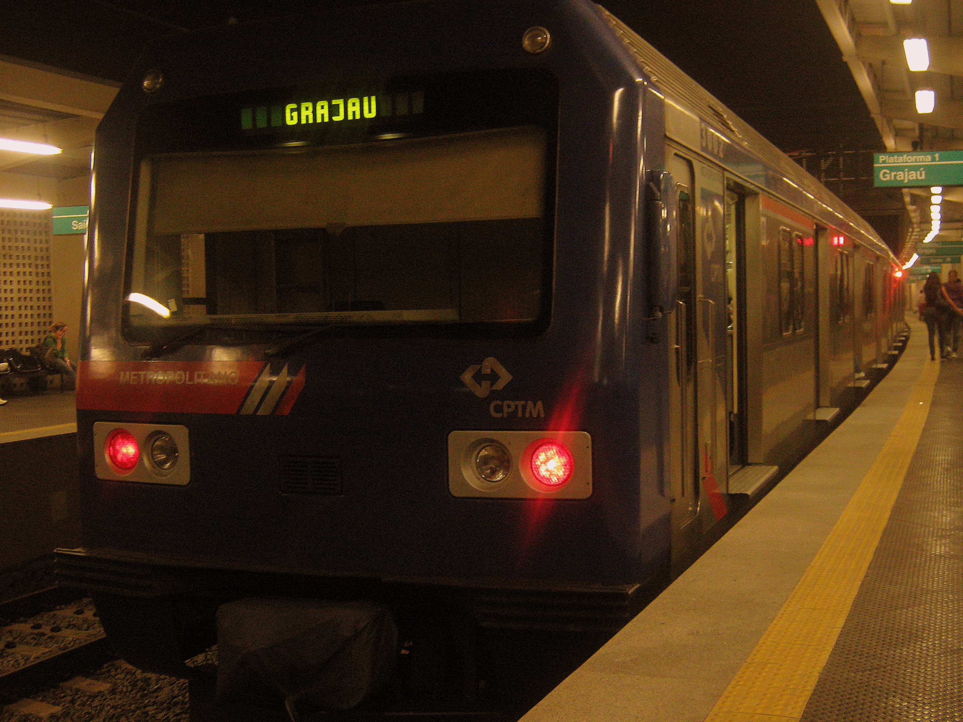 The EMU of CPTM manufactured by Siemens.